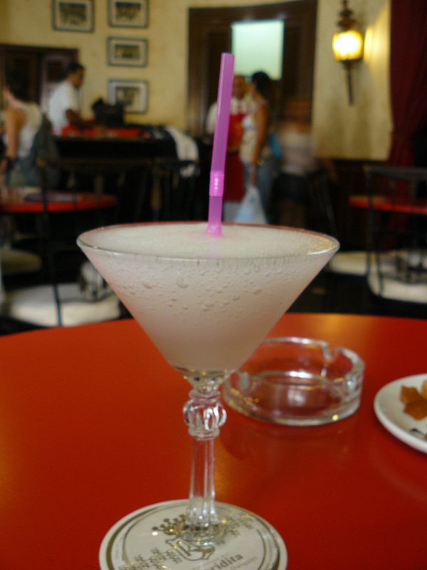 Daiquiri from el Floidita Bar, where it was invented, Havana, Cuba